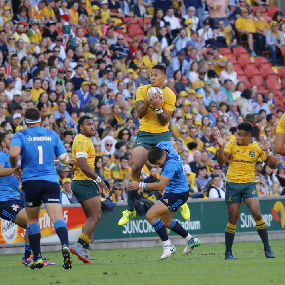 2017.06.24.15.32.45-Folau highball-0003 The 2017 mid-year rugby union internationals, 24 June 2017, Australia vs Italy at Suncorp Stadium, Brisbane